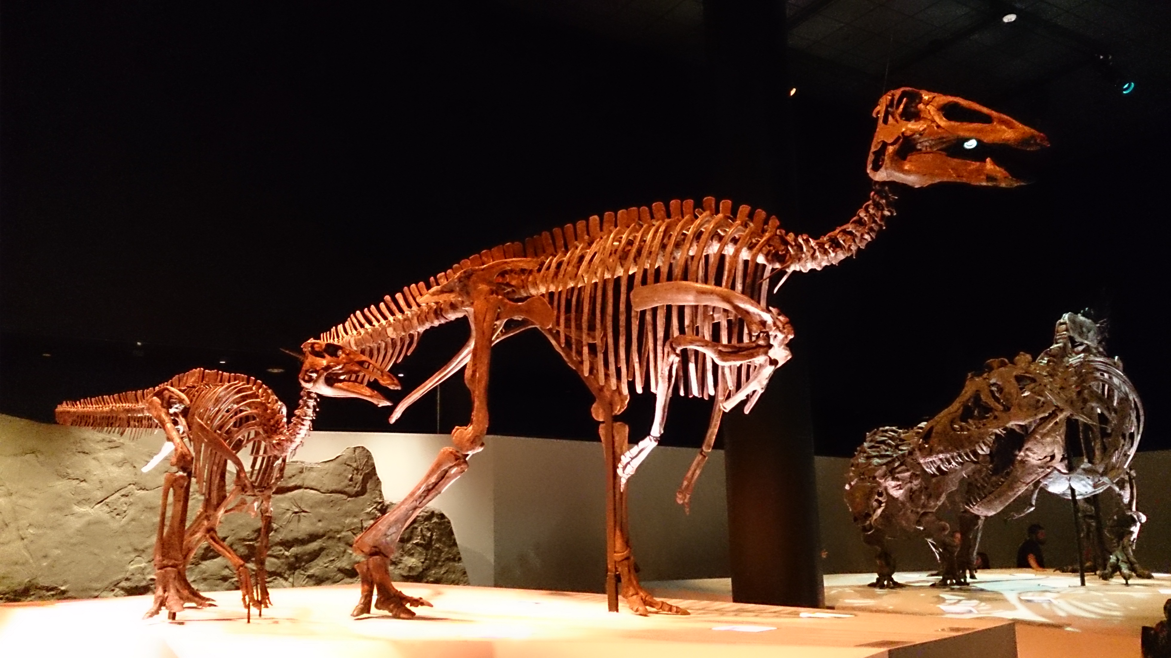 Paleo Hall at HMNS, featuring adult and juvenile skeletons of Edmontosaurus annectens (foreground).